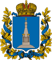 Coat of arms of Kovno Governorate (1843-1915), Russian Empire. The image depicts a monument to 1812 French invasion of Russia. It stood near Kaunas Town Hall.